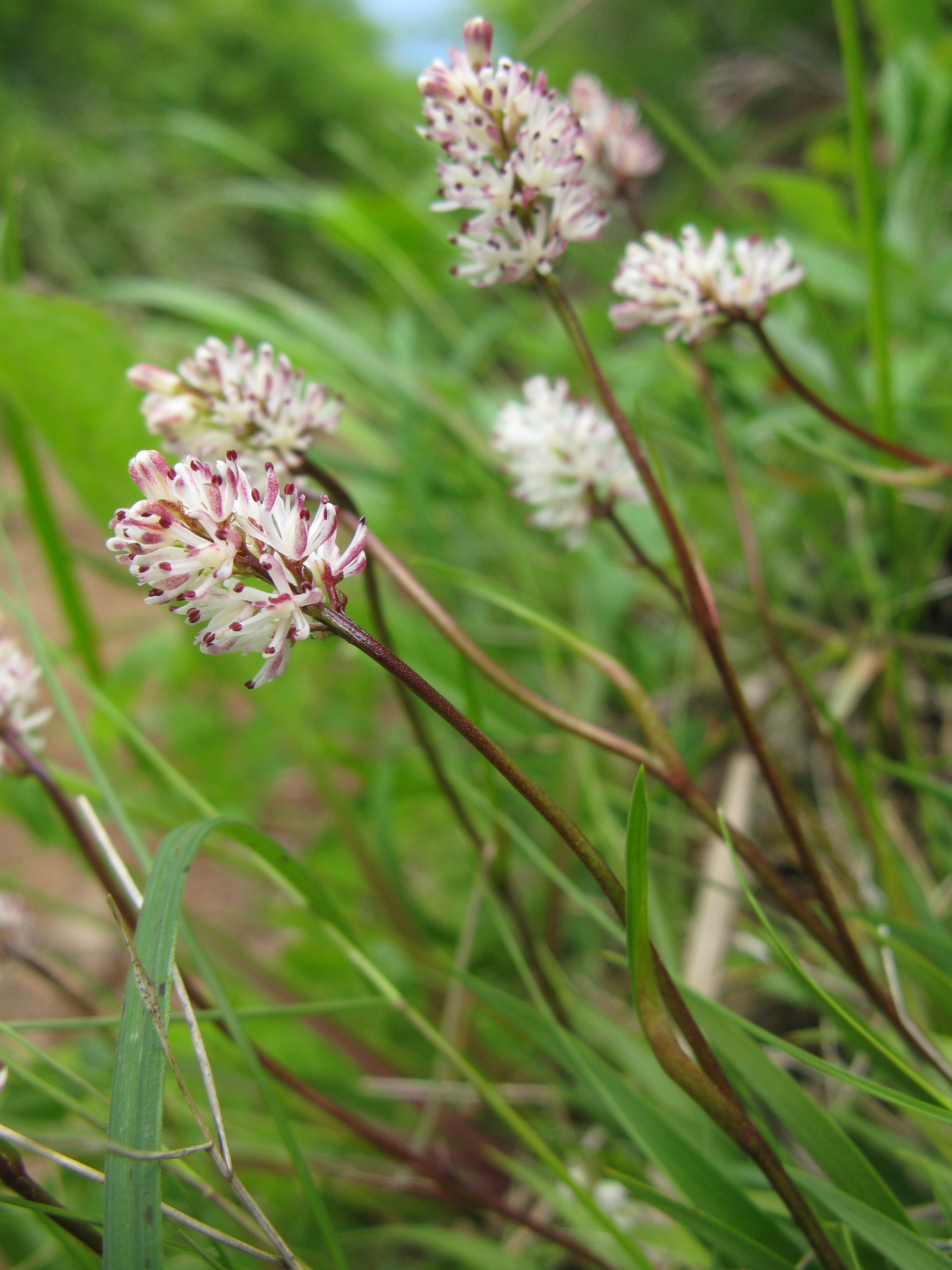 Tofieldia coccinea, Mount Bandai, Fukushima pref., Japan